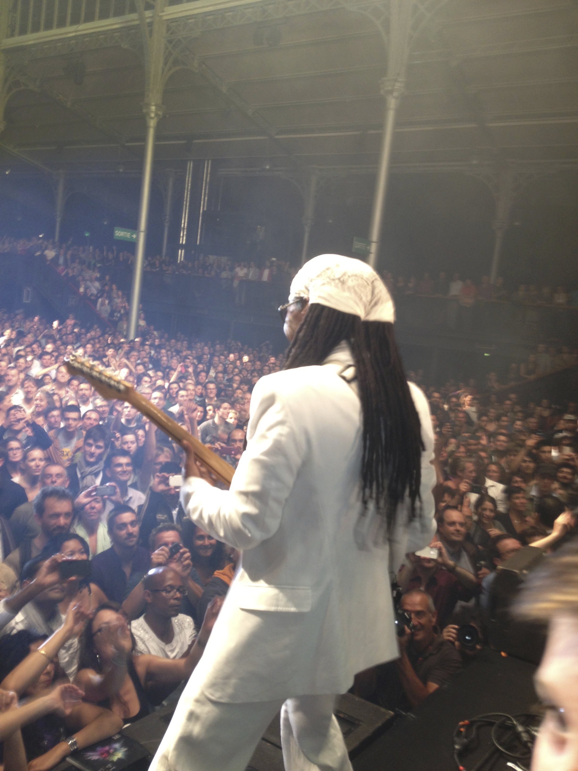 Picture of Nile Rodgers taken from the stage during "Good Times" in Paris, september 10th 2013